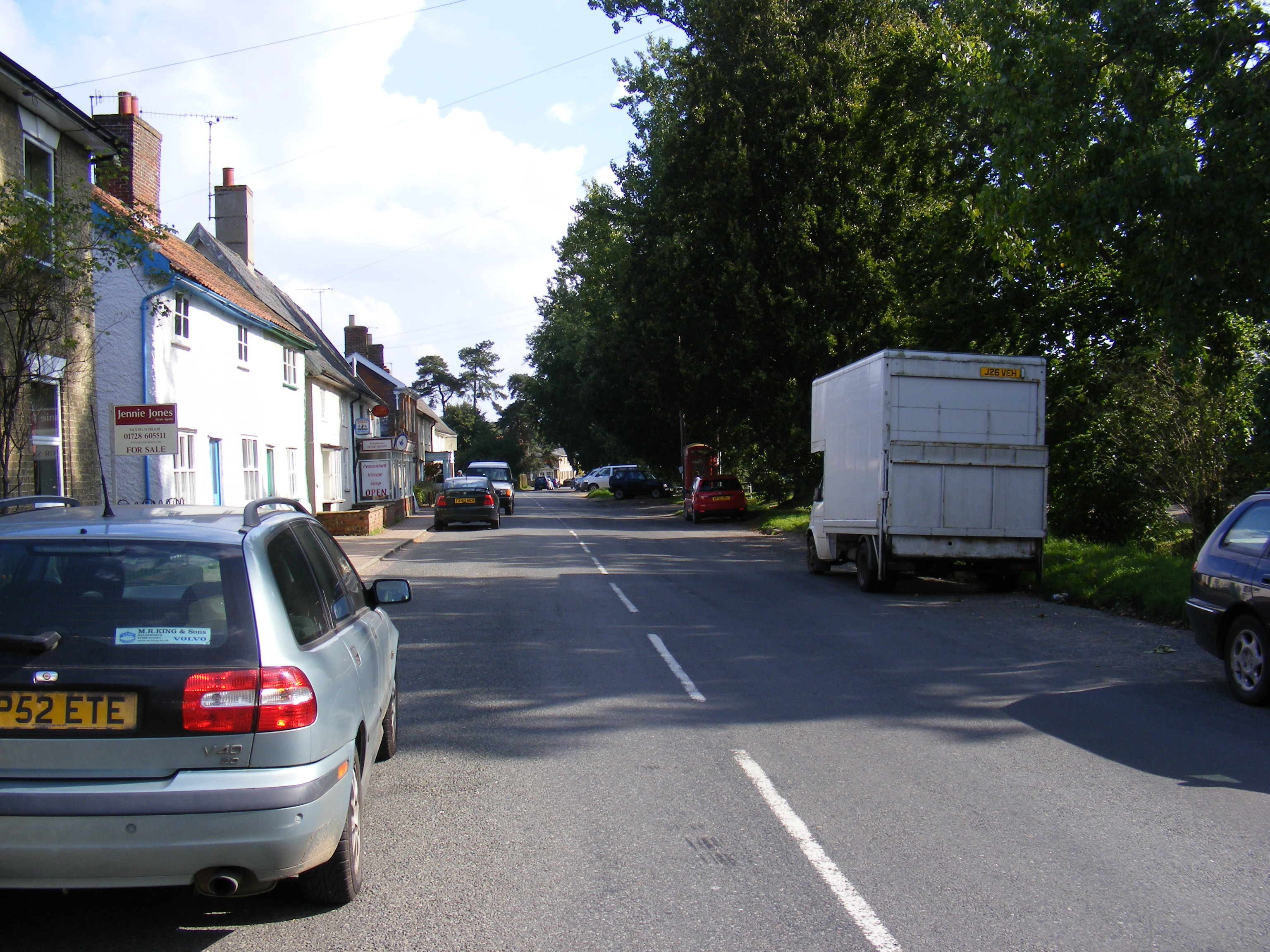 A1120 at Peasenhall